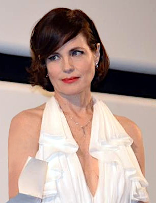 Elizabeth McGovern at the screening of the restored version of "Once upon a time in America" at the Cannes Film Festival